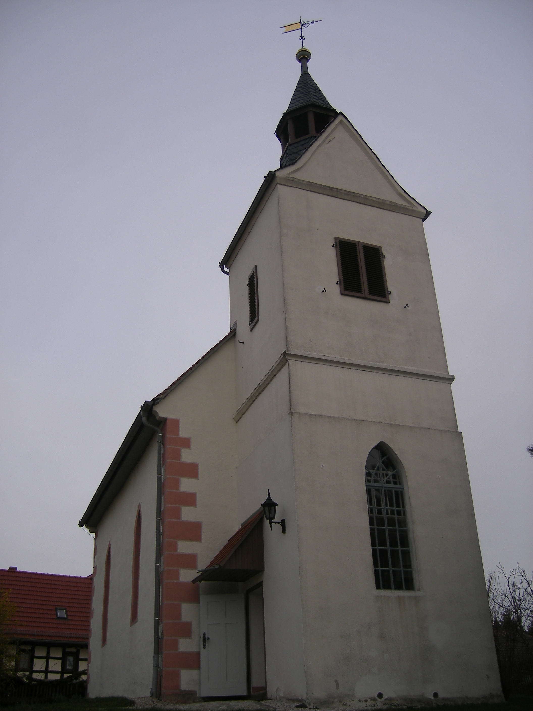 The church in Nobitz-Kraschwitz near Altenburg/Germany.